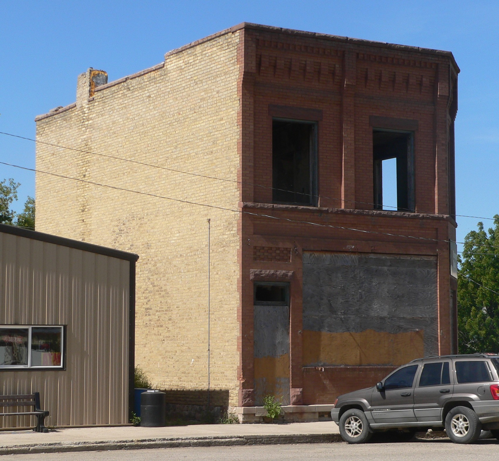 First State Bank building, at southwest corner of 4th Street and 2nd Avenue in Revillo, South Dakota; seen from the southeast, looking obliquely across 2nd. Photographed September 7, 2017.